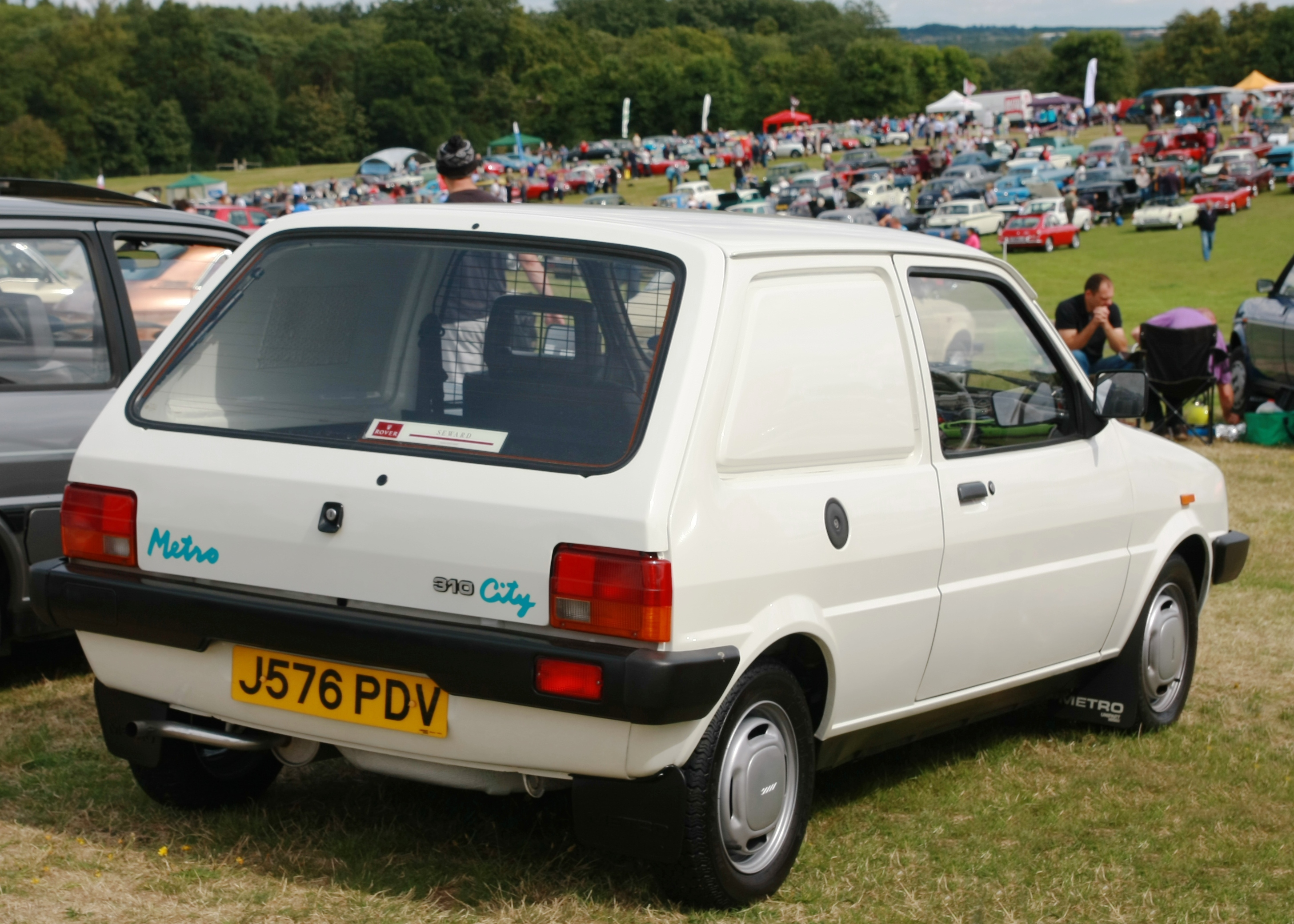 Mini Metro as panel van, first registred on 9th April 1992.